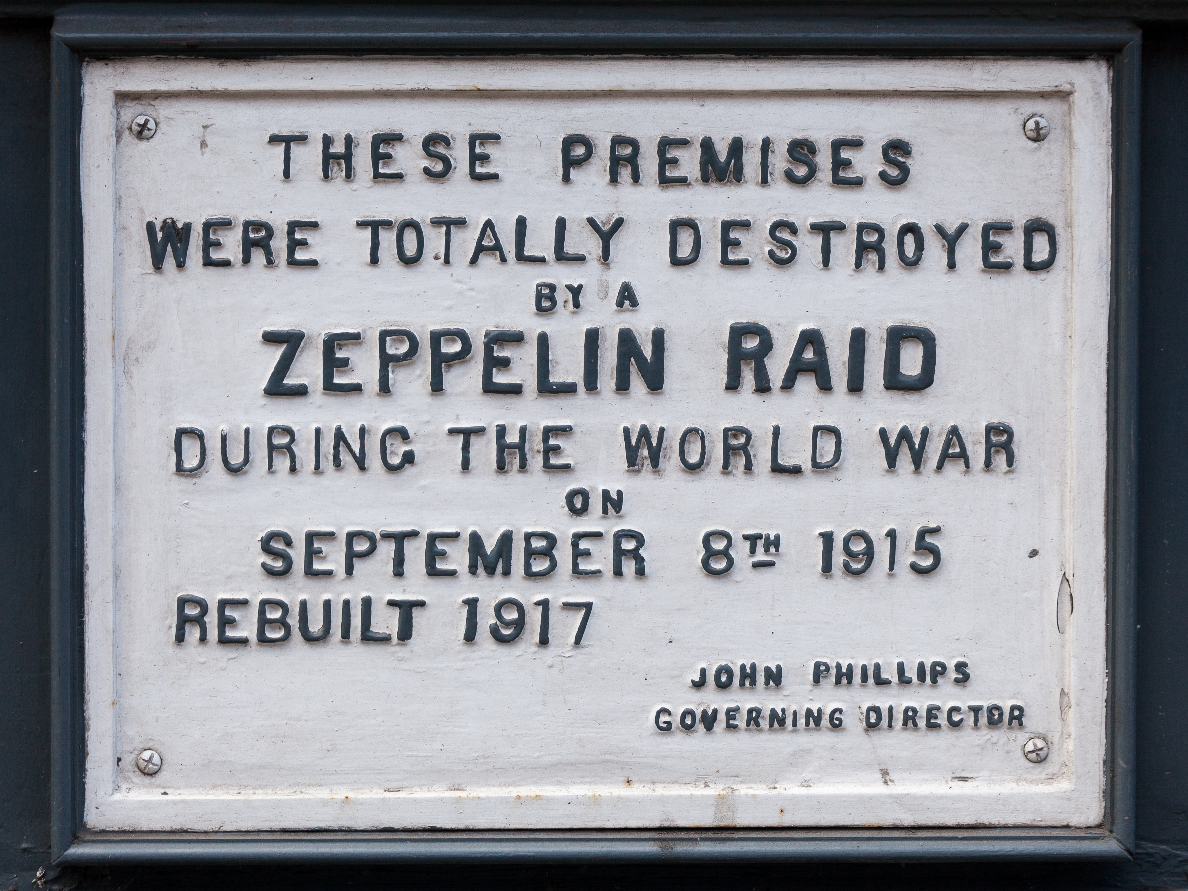 Plaque marking site of Zeppelin raid of September 8, 1915, on 61 Farringdon Road, London. THESE PREMISES WERE TOTALLY DESTROYED BY A ZEPPELIN RAID DURING THE WORLD WAR ON SEPTEMBER 8TH 1915 REBUILT 1917 JOHN PHILLIPS GOVERNING DIRECTOR